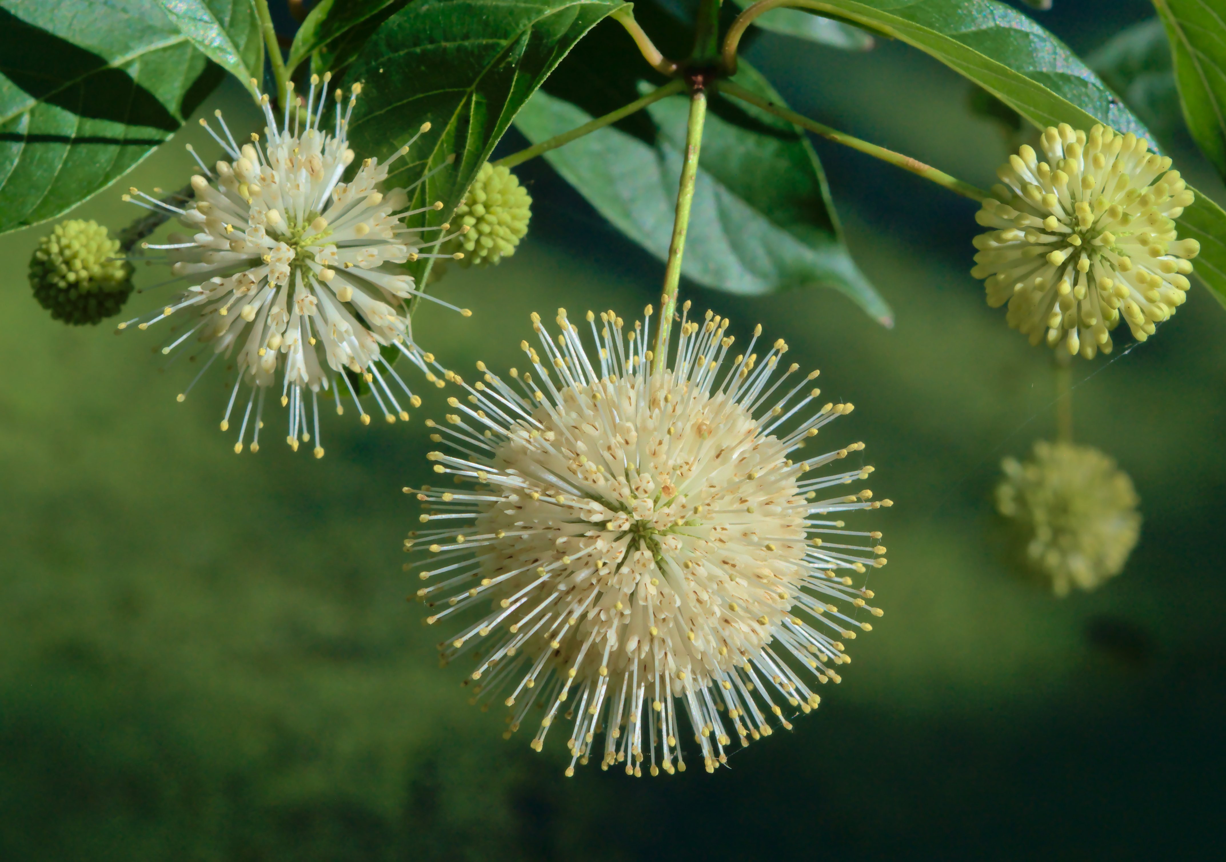 Common buttonbush (Cephalanthus occidentalis occidentalis). This photo was taken in a protected area in Canada, Wikidata item Point Pelee National Park (Q1153938)